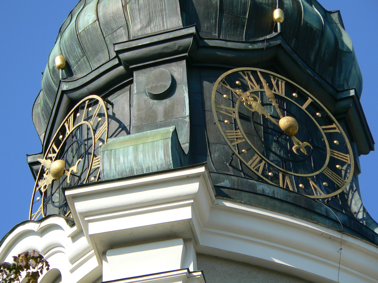 Lindenberg, Allgaeu, Germany, Church St. Peter und Paul